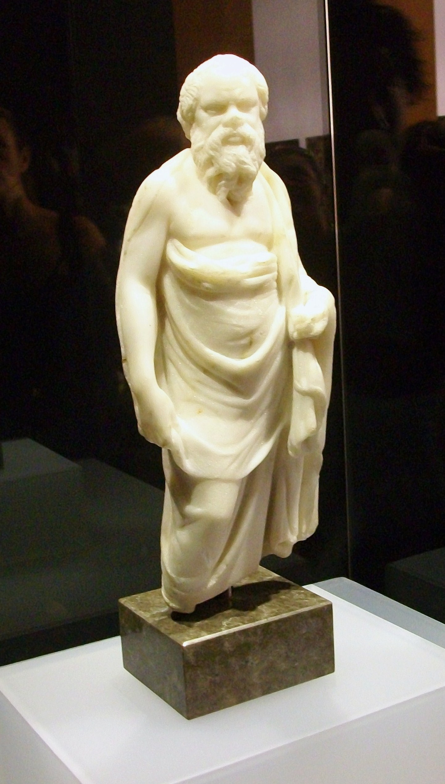 Roman or Hellenistic marble statuette of Socrates, 200–100 BC. Said to be found in Alexandria. Photographed in the Archaeological Museum of Alicante, during the touring exhibition The Body Beautiful in Ancient Greek Art and Thought. GR 1925,1118.1